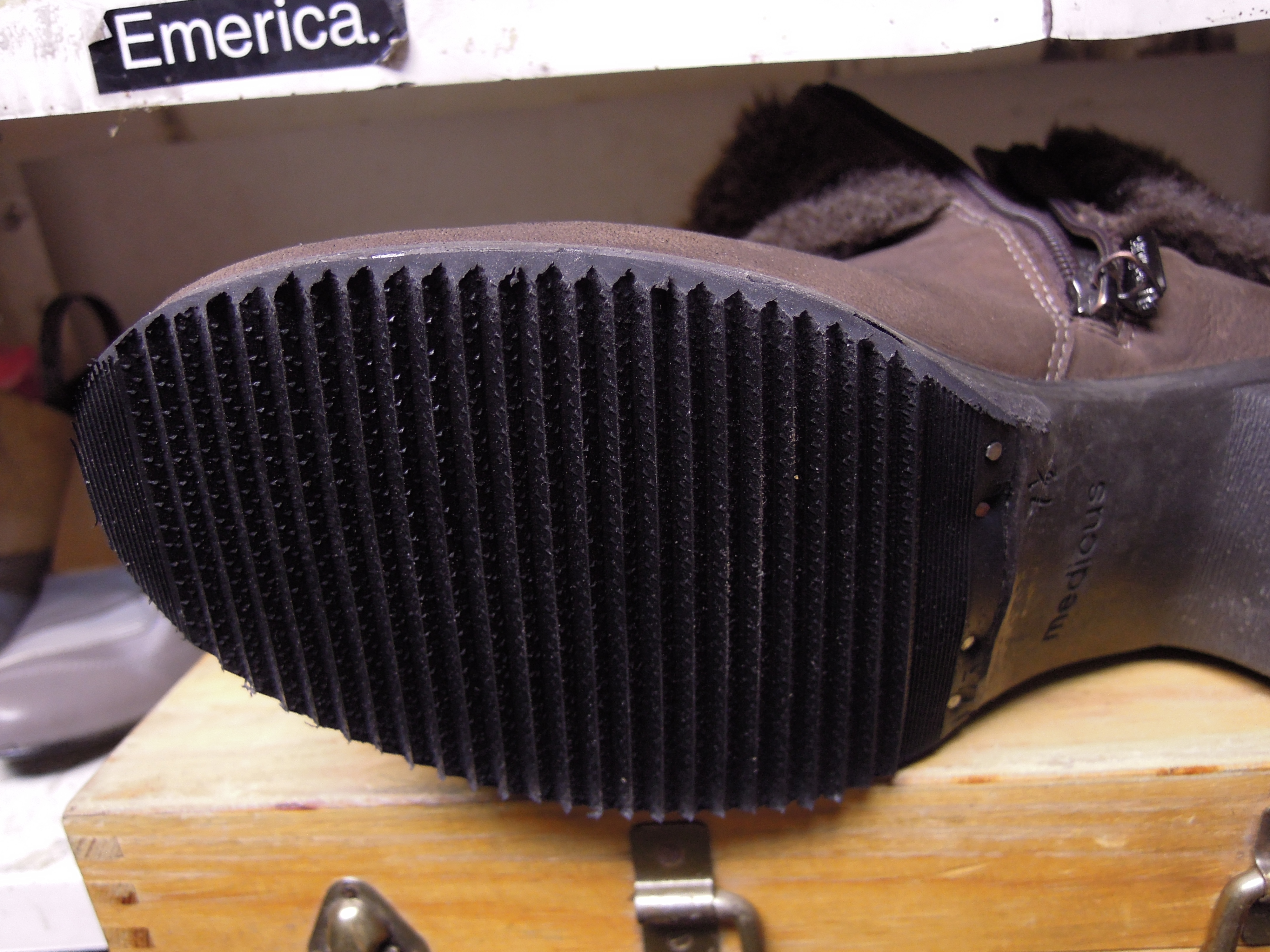 A boot after reparation, the new black sole.